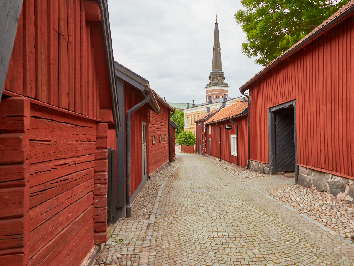 Västerås